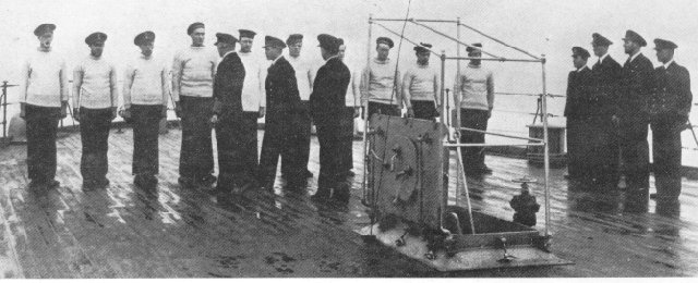 The crew of the Norwegian Motor Torpedo Boat MTB 56 lined up on board the destroyer HNoMS Draug immediately before their first mission on the coast of Norway.